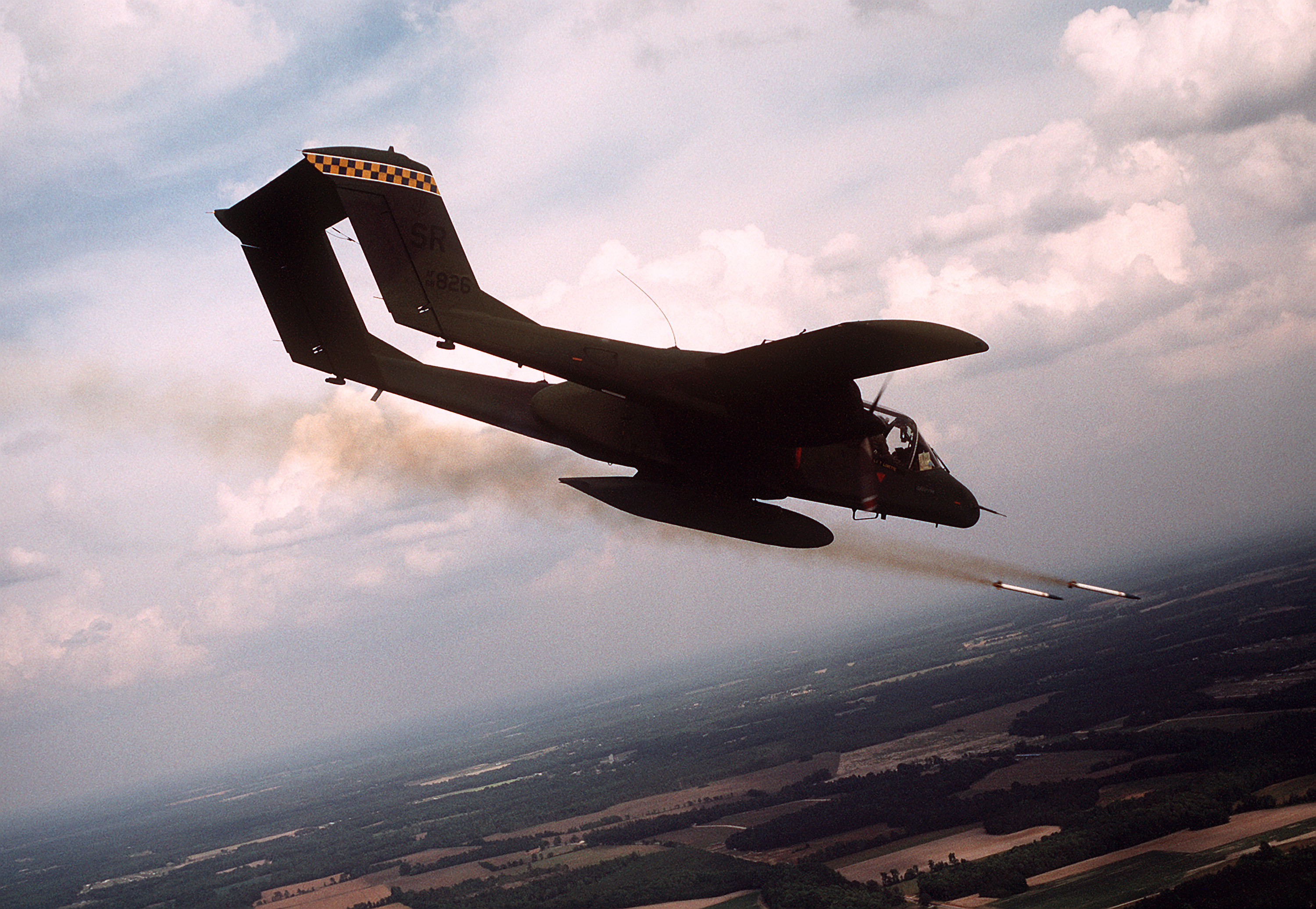 A U.S. Air Force North American Rockwell OV-10A Bronco (s/n 68-3826) from the 21st Tactical Air Support Squadron fires white phosphorus rockets to mark a target for an air strike during tactical air control training near Shaw Air Force Base, South Carolina (USA), on 22 May 1989.